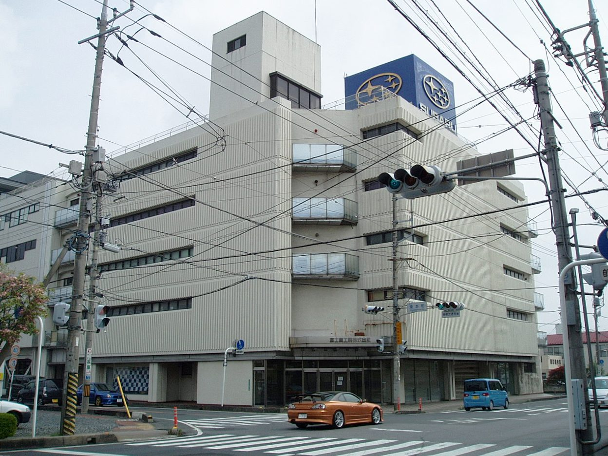 Former West Building of FHI Gunma Main Plant, located in Ota, Gunma, Japan.